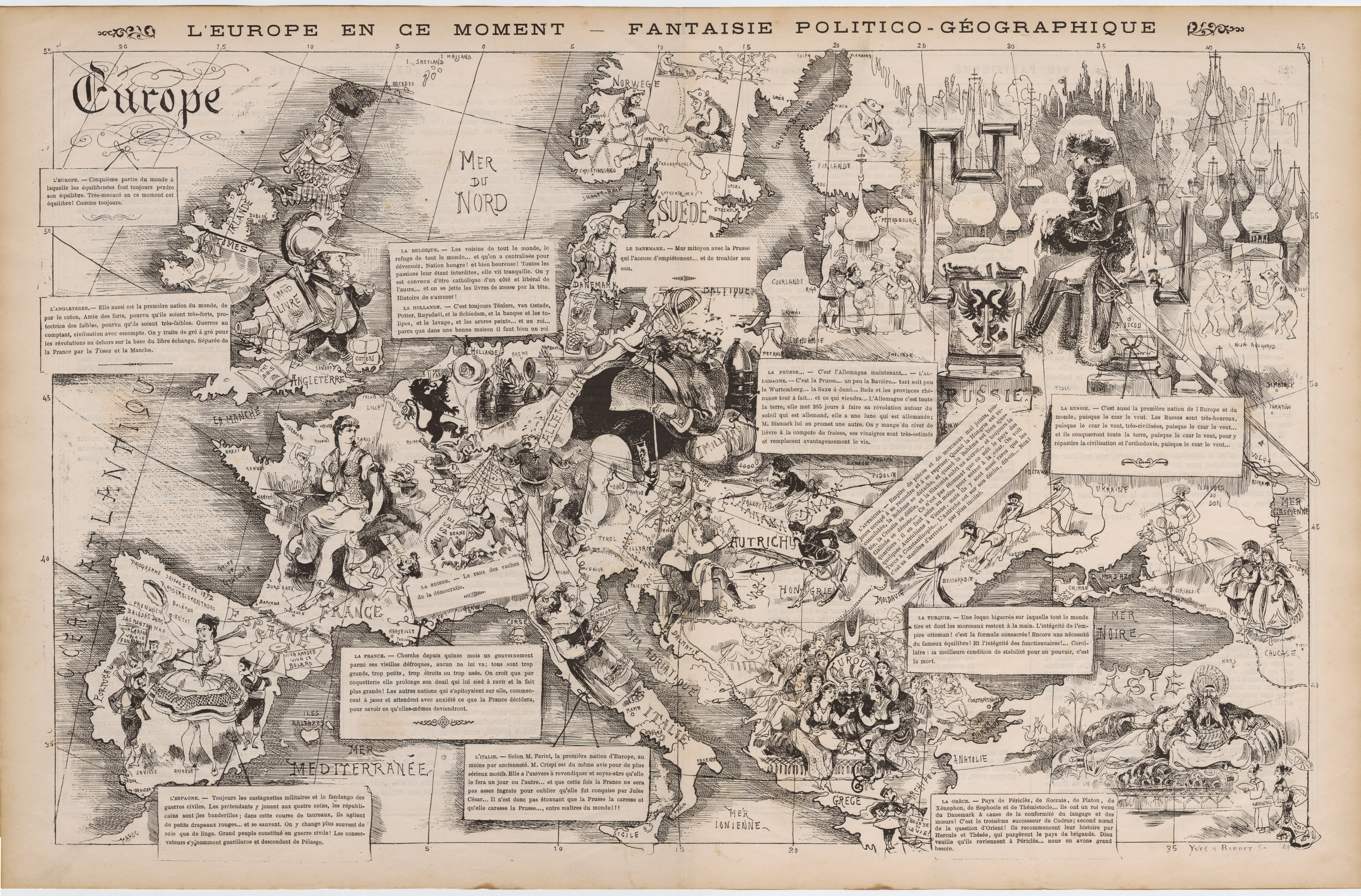 An elaborate satirical map reflecting the European situation following the Franco-Prussian war. France had suffered a crushing defeat: the loss of Alsace and much of Lorraine